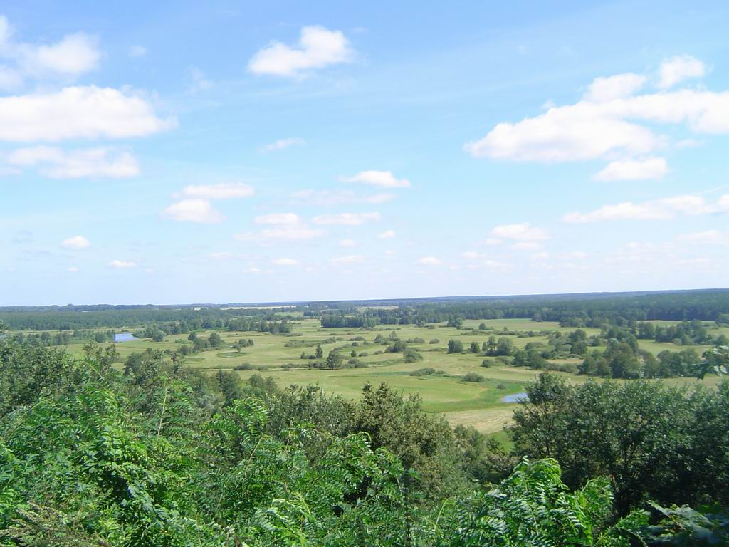 View from Kamenitsa in Sedniv